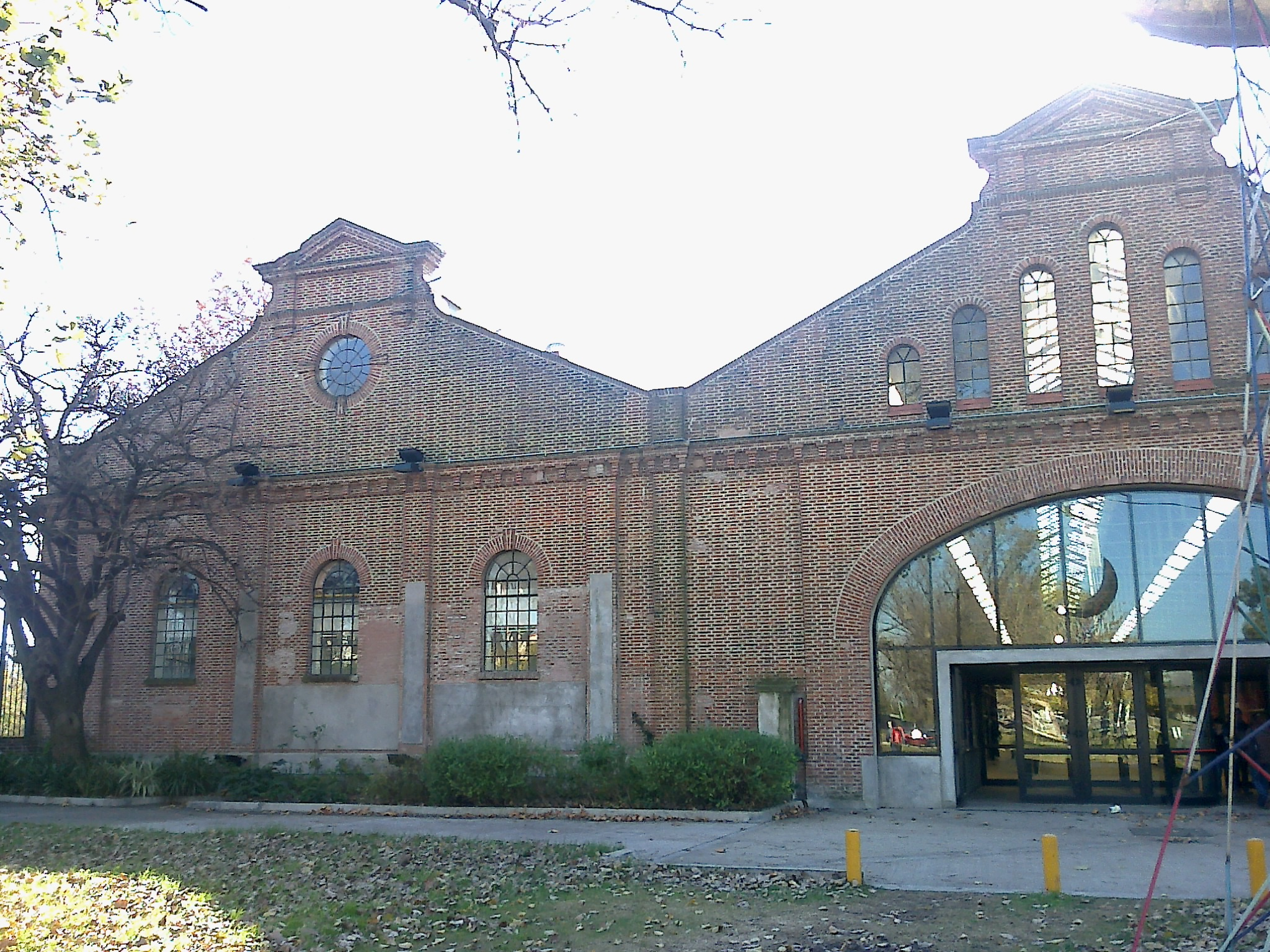 The José Hernández building at the University of Lanús. The building, a former train depot, was refurbished in 2010.